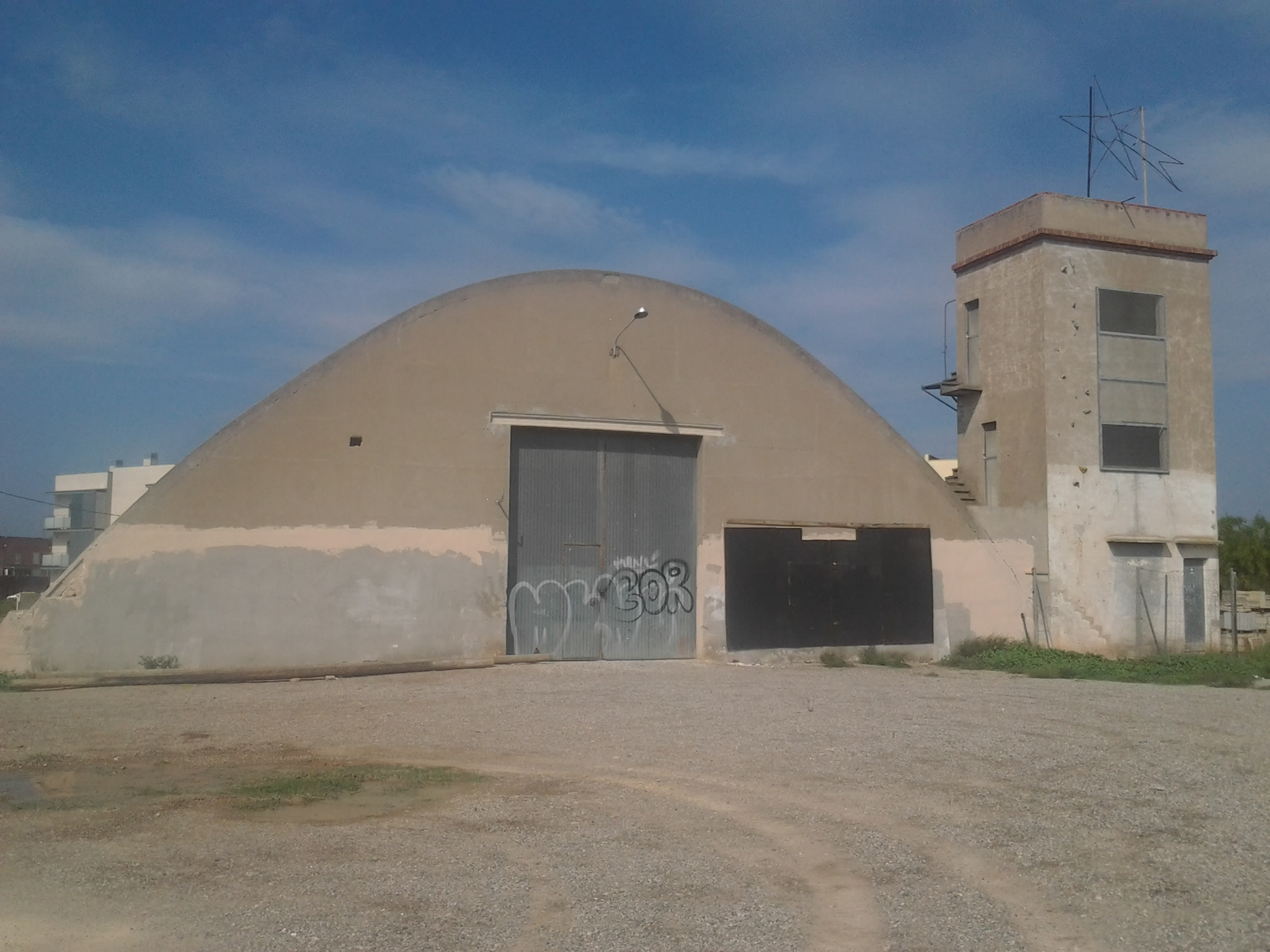 Magraners' hangar